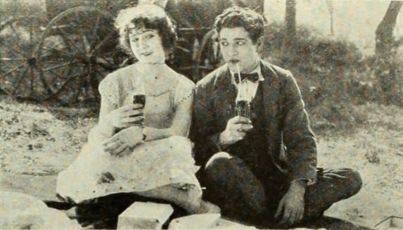 Still from the American comedy film Watch Your Step (1922) with Patsy Ruth Miller and Cullen Landis, page 63 of the August 1922 Photoplay.